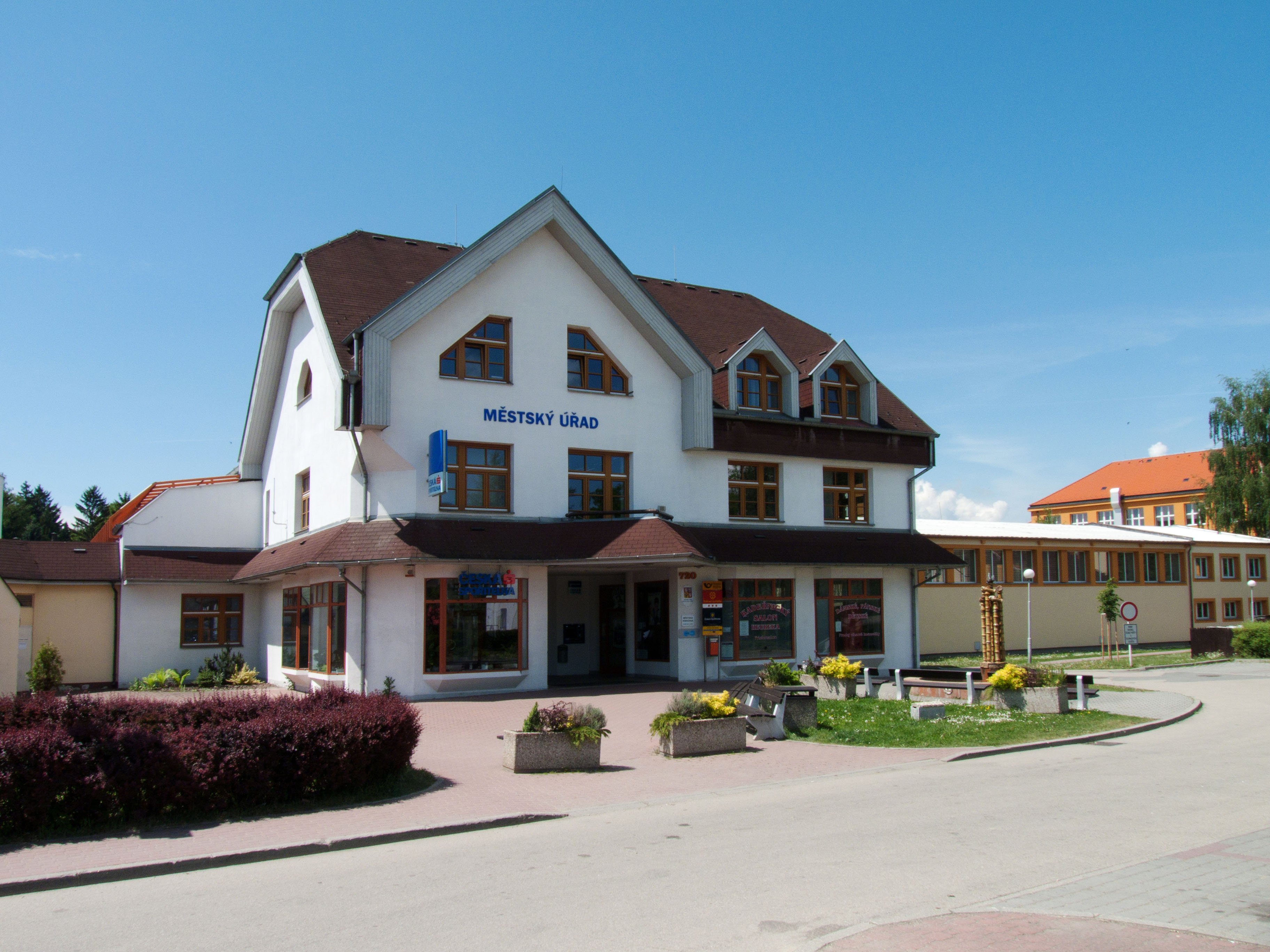 Municipal office building in the town of Planá nad Lužnicí|Planá nad Lužnicí, Tábor District, Czech Republic.